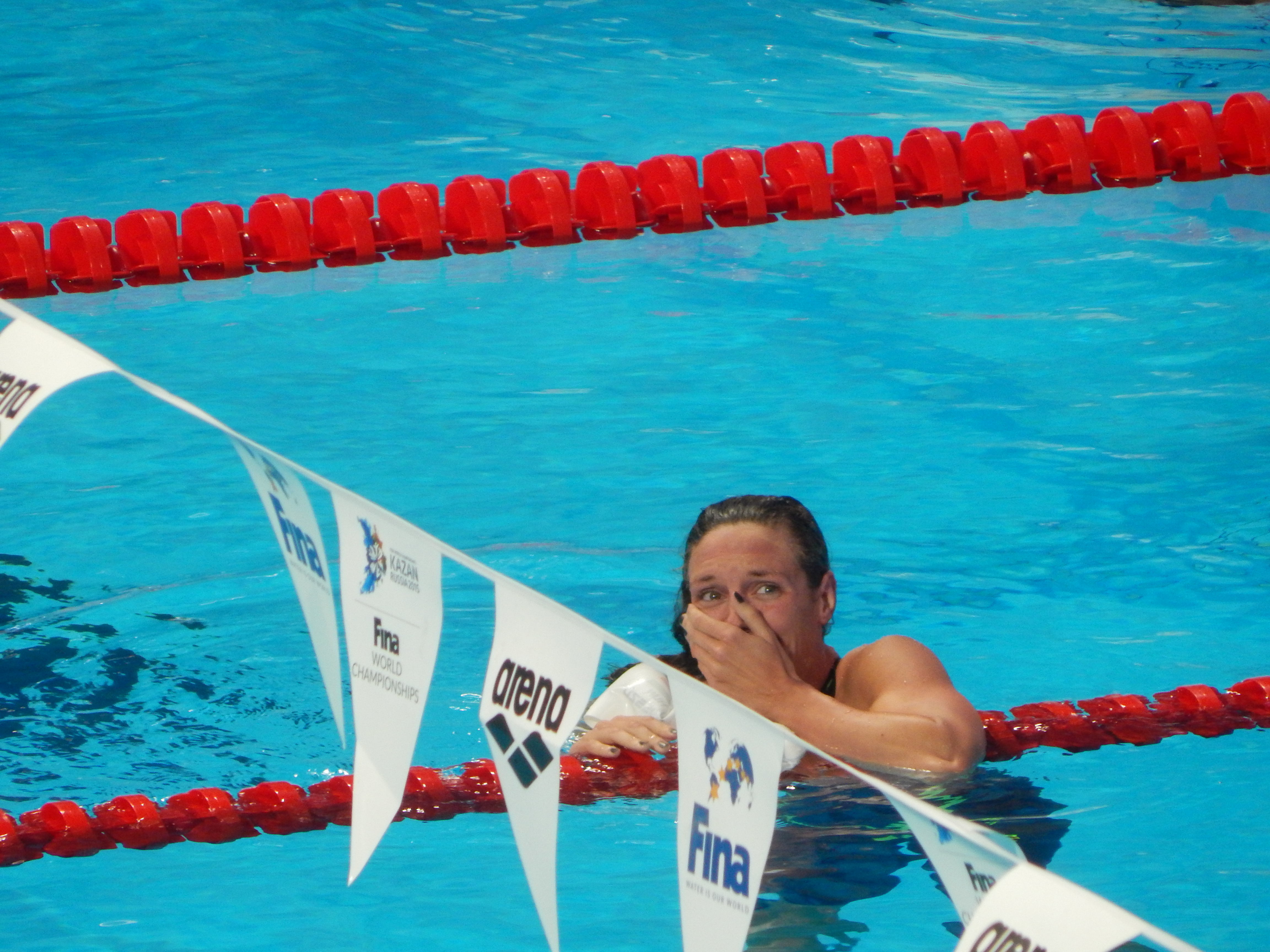 Katinka Hosszú after her winning final heat at 200 metres individual medley in Kazan 2015